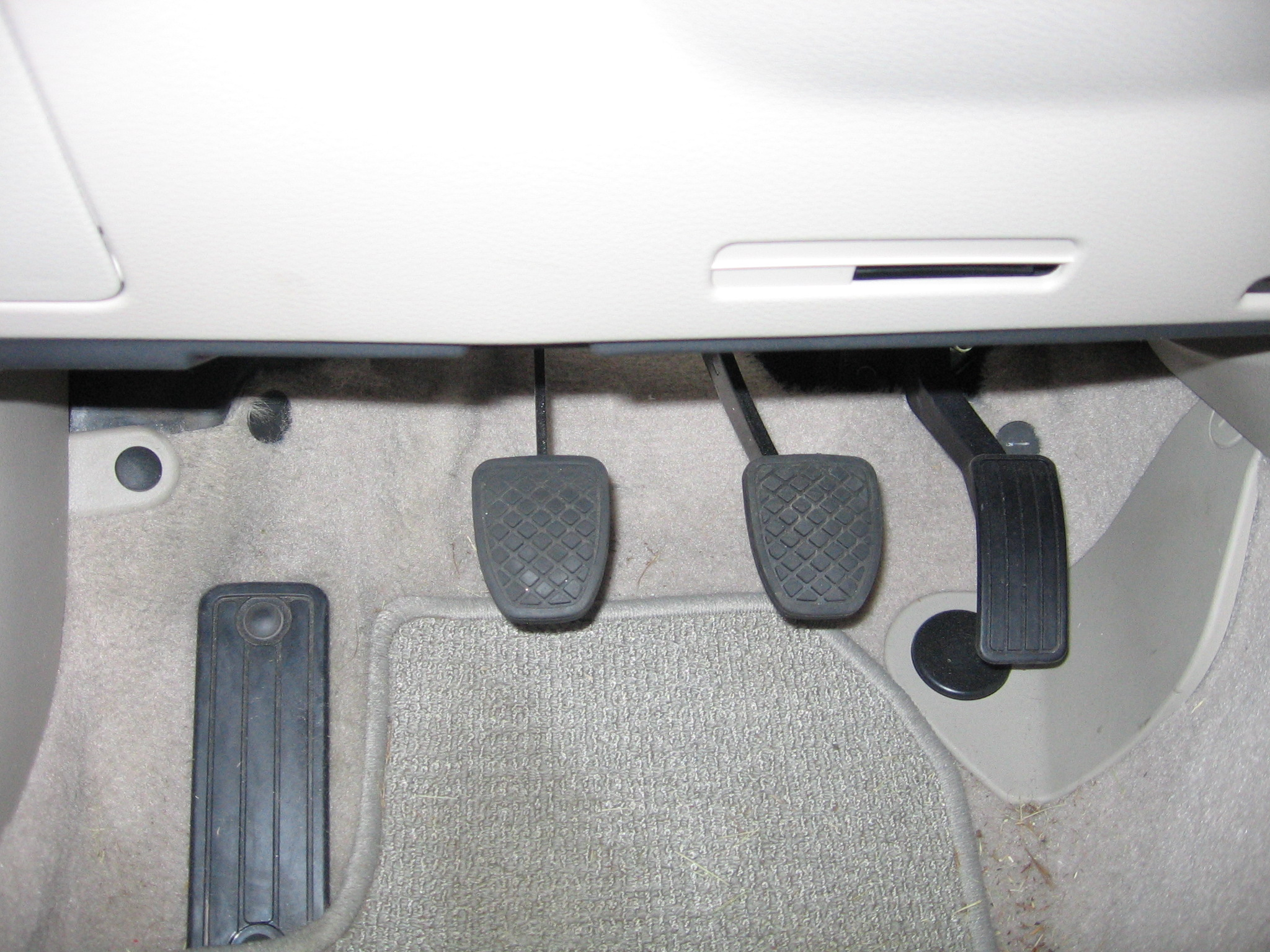 Photo showing the pedals of my car for use in the article on manual transmissions.